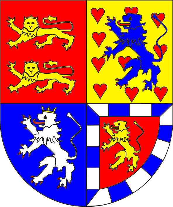 coats of arms of the duchy of Brunswick-Lüneburg (1482-1582); 1: duchy of Brunswick; 2: duchy of Lüneburg; 3: county of Eberstein; 4: lordship of Homburg